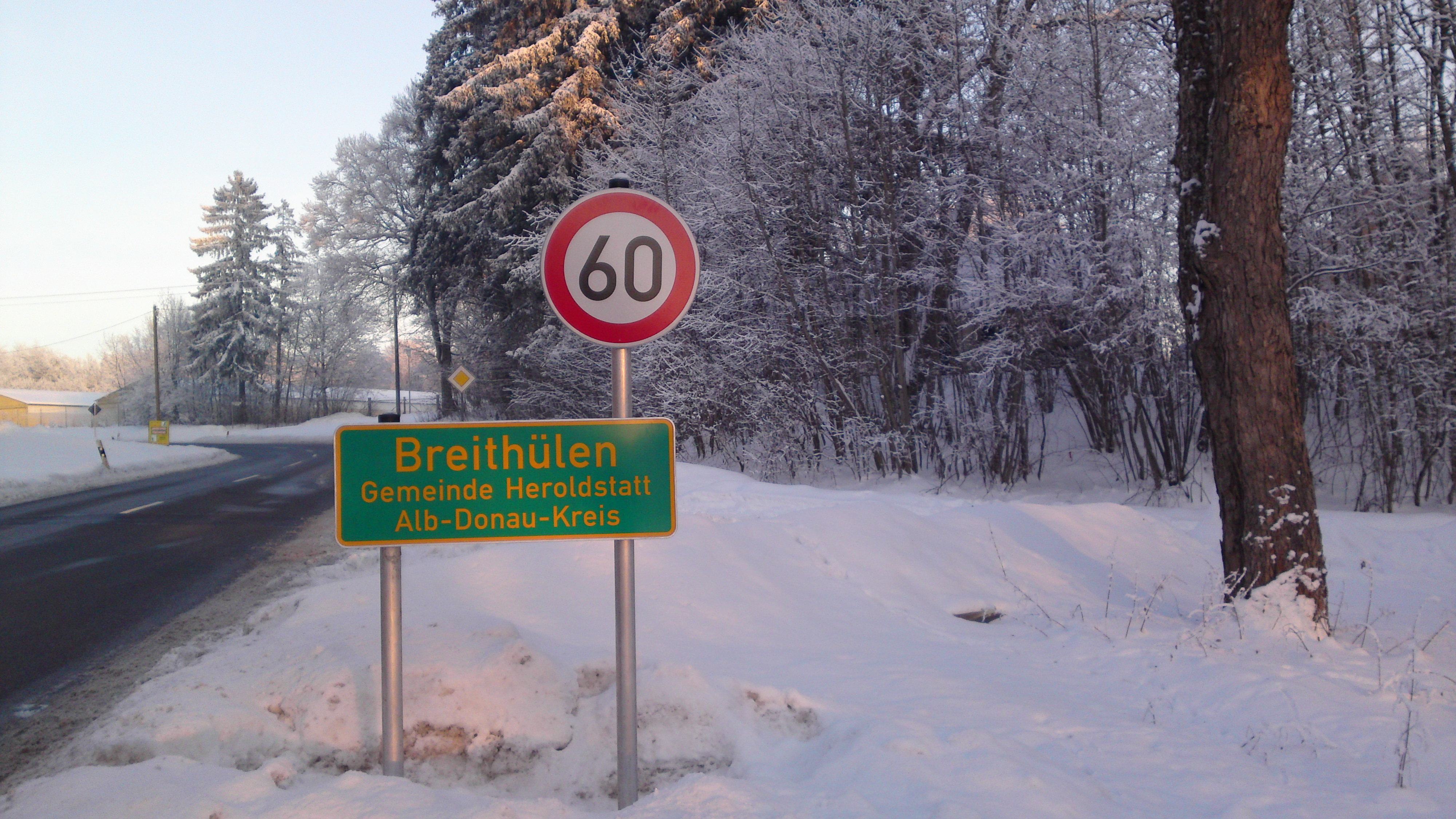 Ortshinweistafel Breithülen, Gemeinde Heroldstatt, Alb-Donau-Kreis, Germany